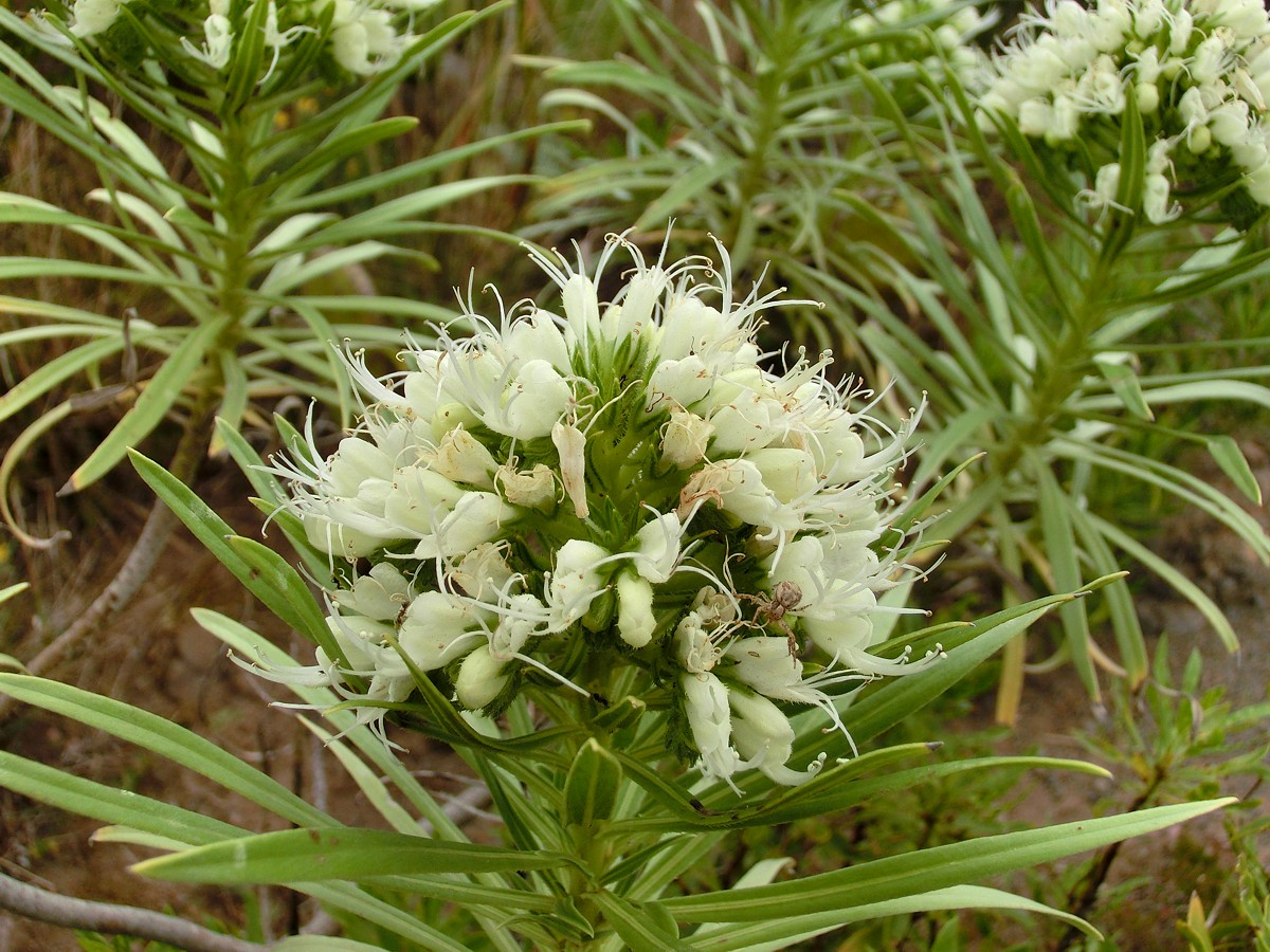 Echium leucophaeum, inflorescence. Tenerife, Anaga mountains, N of San Andrés, succulents shrubland at TF12 road, ca. 400 m above sea level.